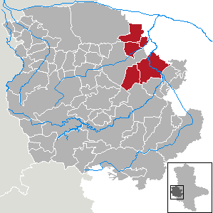 VG Bode-Holtemme in Saxony-Anhalt - District Harz